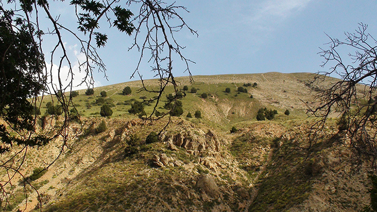 تپه سلام